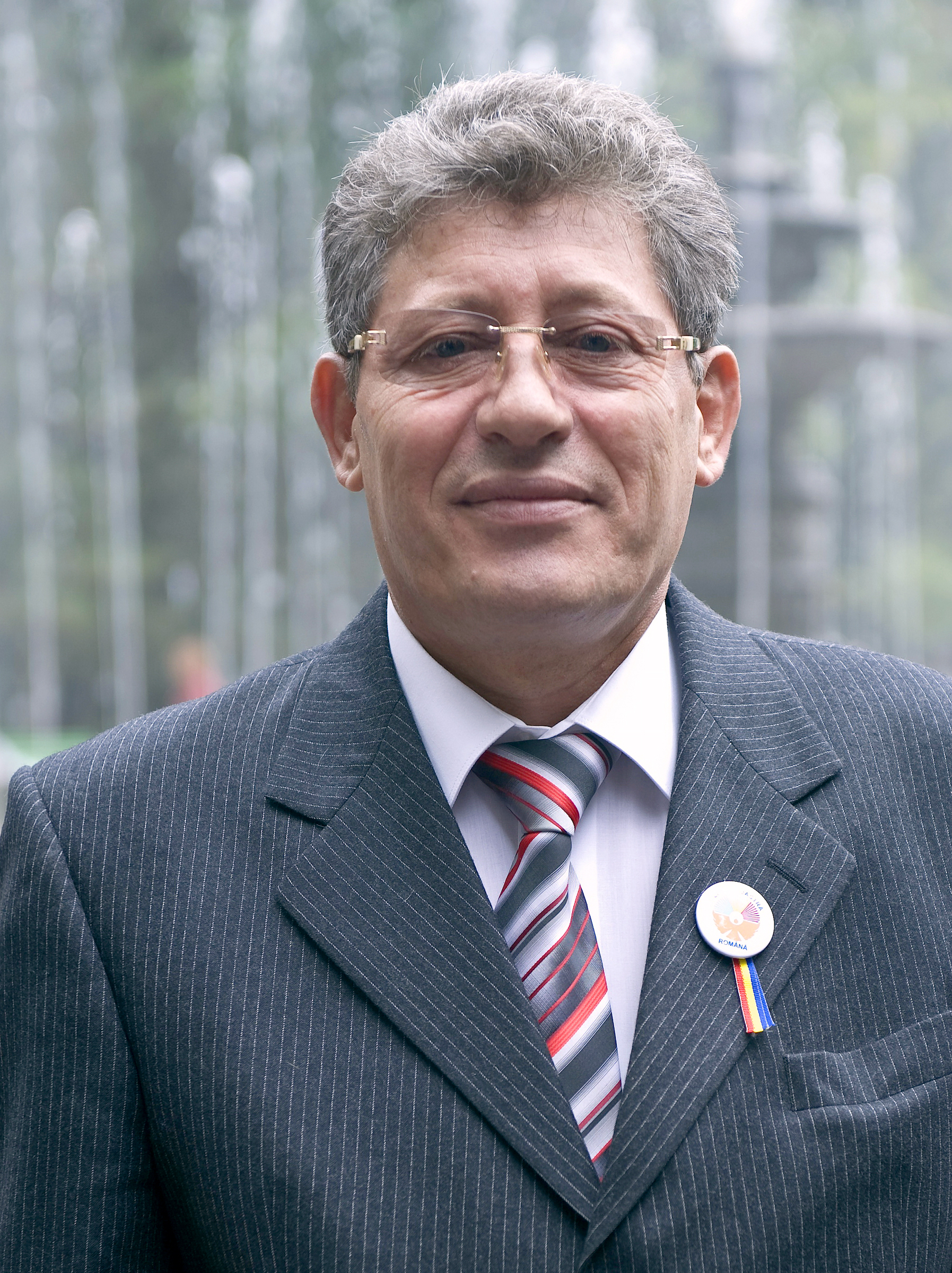 Mihai Ghimpu, the Speaker of the Moldovan Parliament and the leader of the Liberal Party. Ghimpu is celebrating the Romanian language Day (August 31, 2009) in Chişinău's Central Park